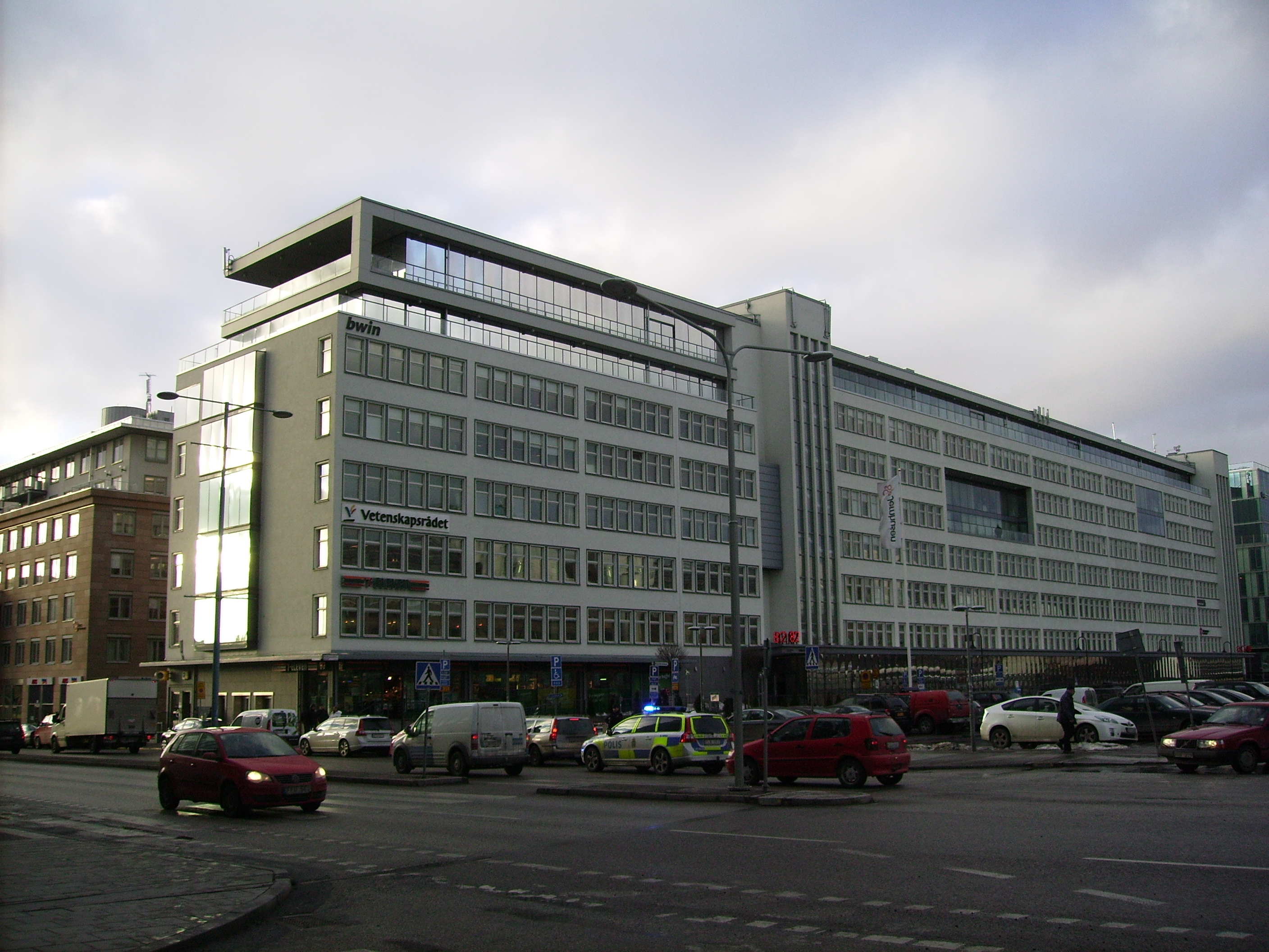 Picture of Vetenskapsrådet's office in Stockholm